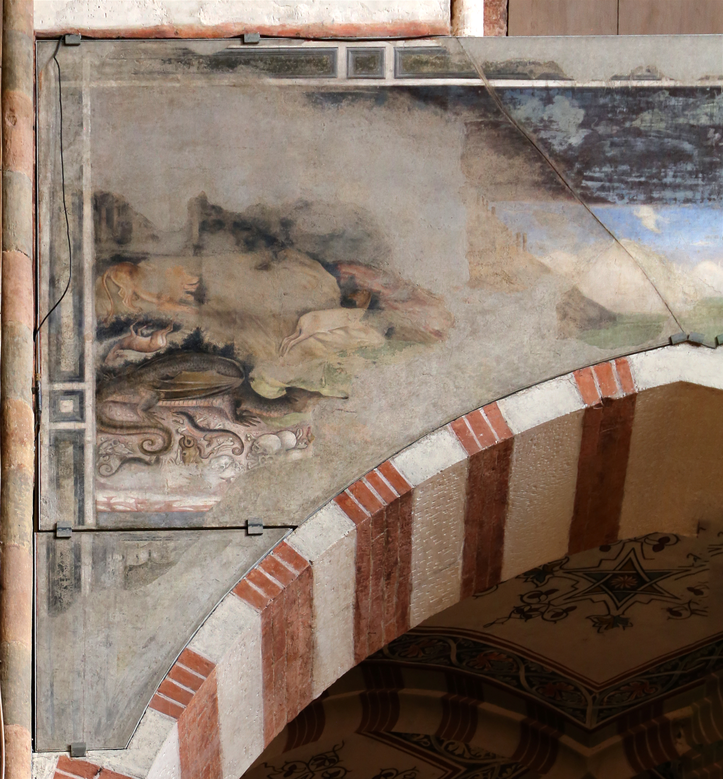 Santa Anastasia (Verona) - Interior